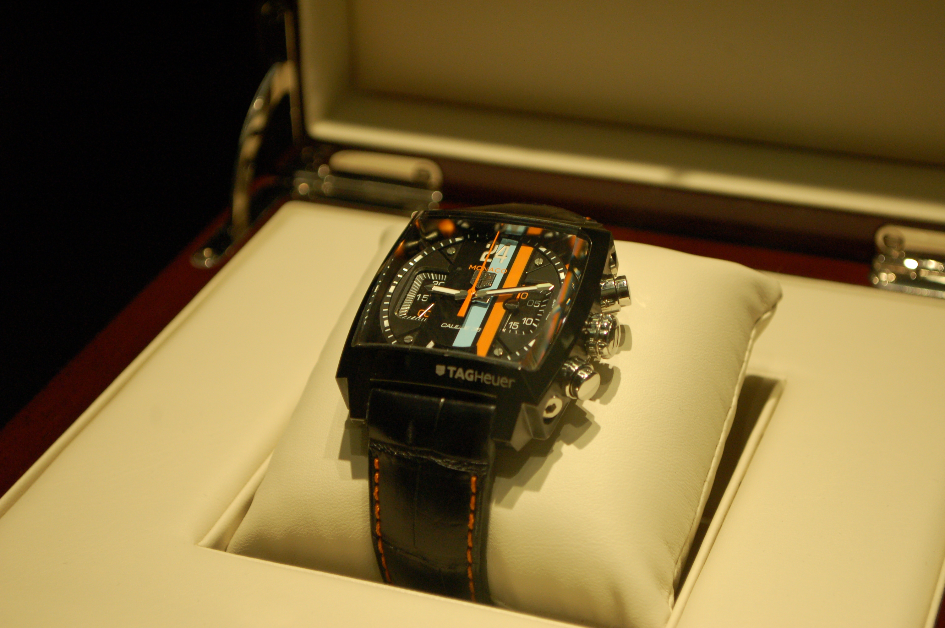 TAG Heuer Monaco 24 with Calibre 36. The TAG Heuer Calibre 36 movement (36.000 beats/hour) floats inside the oversized (40.5mm) black PVD-coated case, suspended within a steel-tube housing. Here on display at Athina Fair 2009.